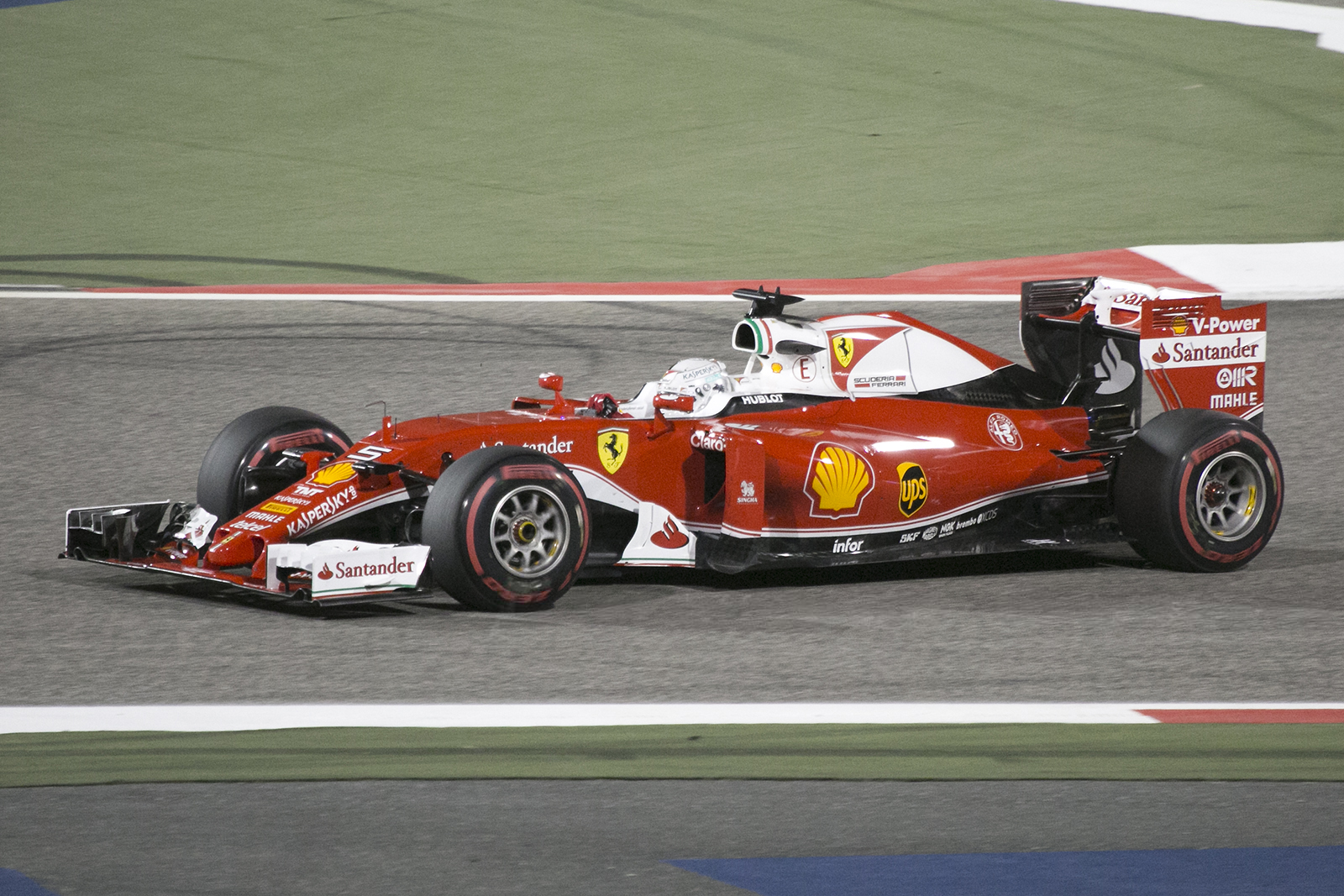 Sebastian Vettel at the 2016 Bahrain Grand Prix